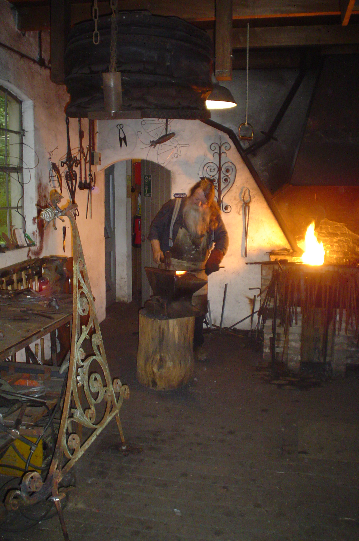 Blacksmith in open air museum Arnhem (The Netherlands)